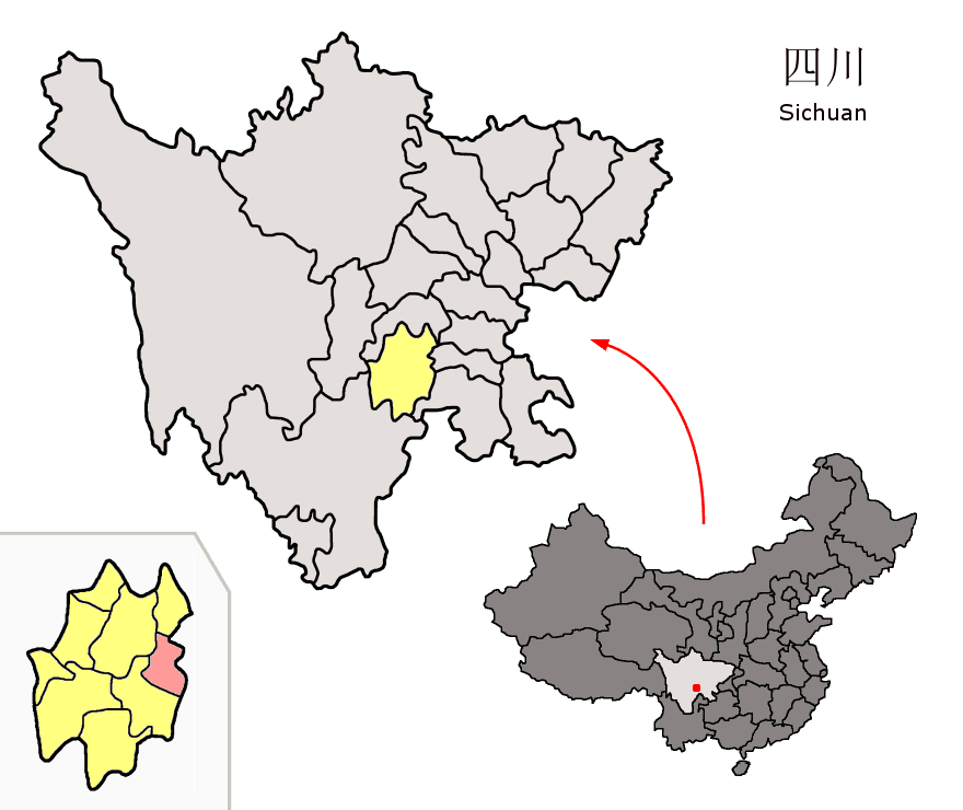 Location of Qianwei County (pink) and Leshan Prefecture (yellow) within Sichuan province of China Map drawn in september 2007 using various sources, mainly : Sichuan province administrative regions GIS data: 1:1M, County level, 1990 Sichuan Counties map from Map of Yunnan & Sichuan Area from